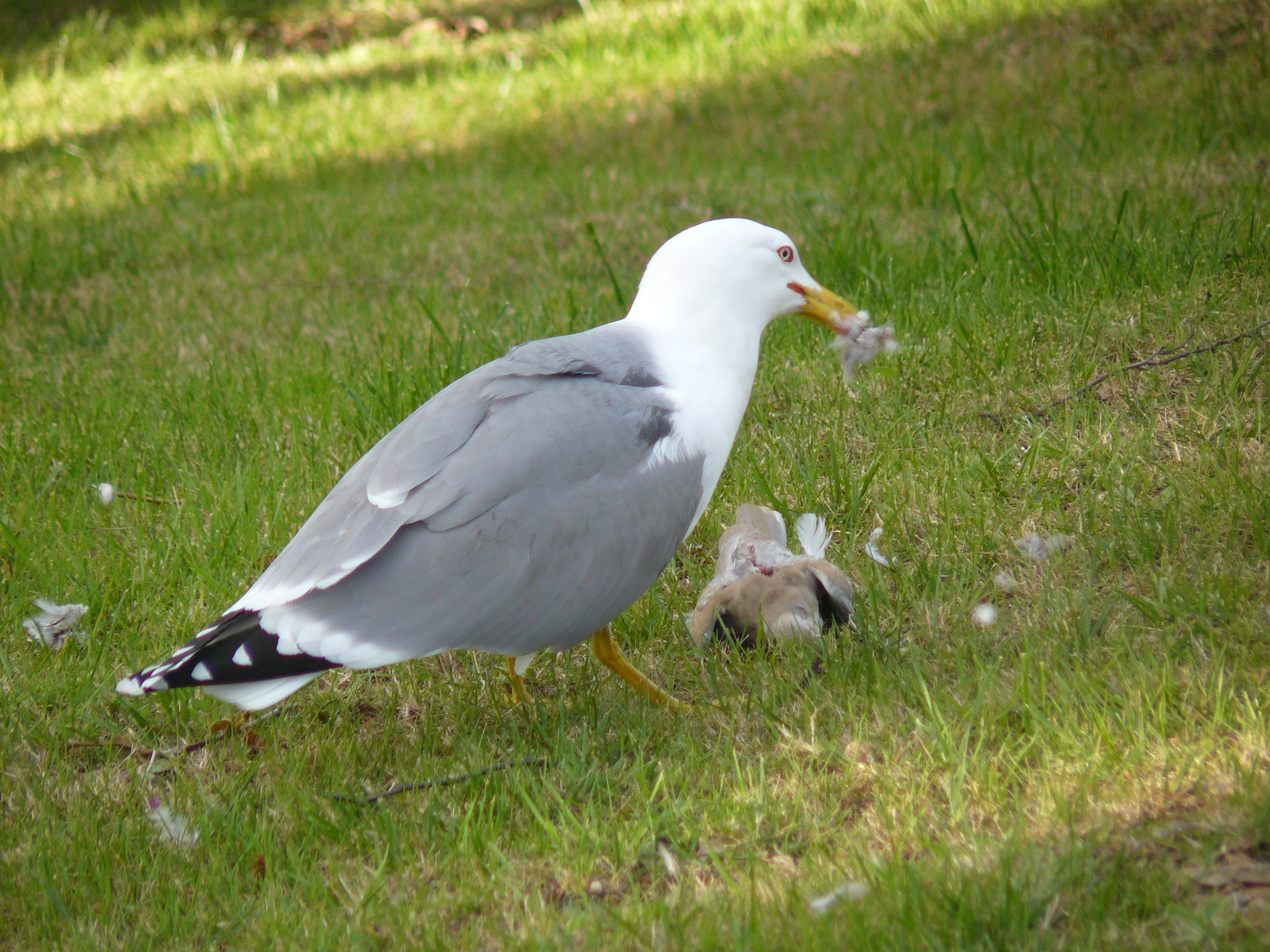 A Yellow-legged Gull eating a pigeon at Barcelona, Spain.